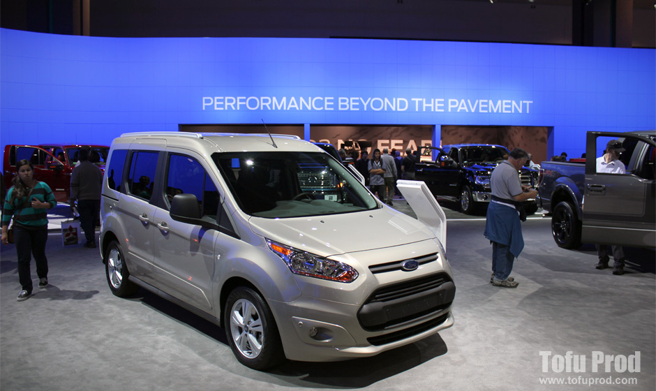 LA Auto Show 2012